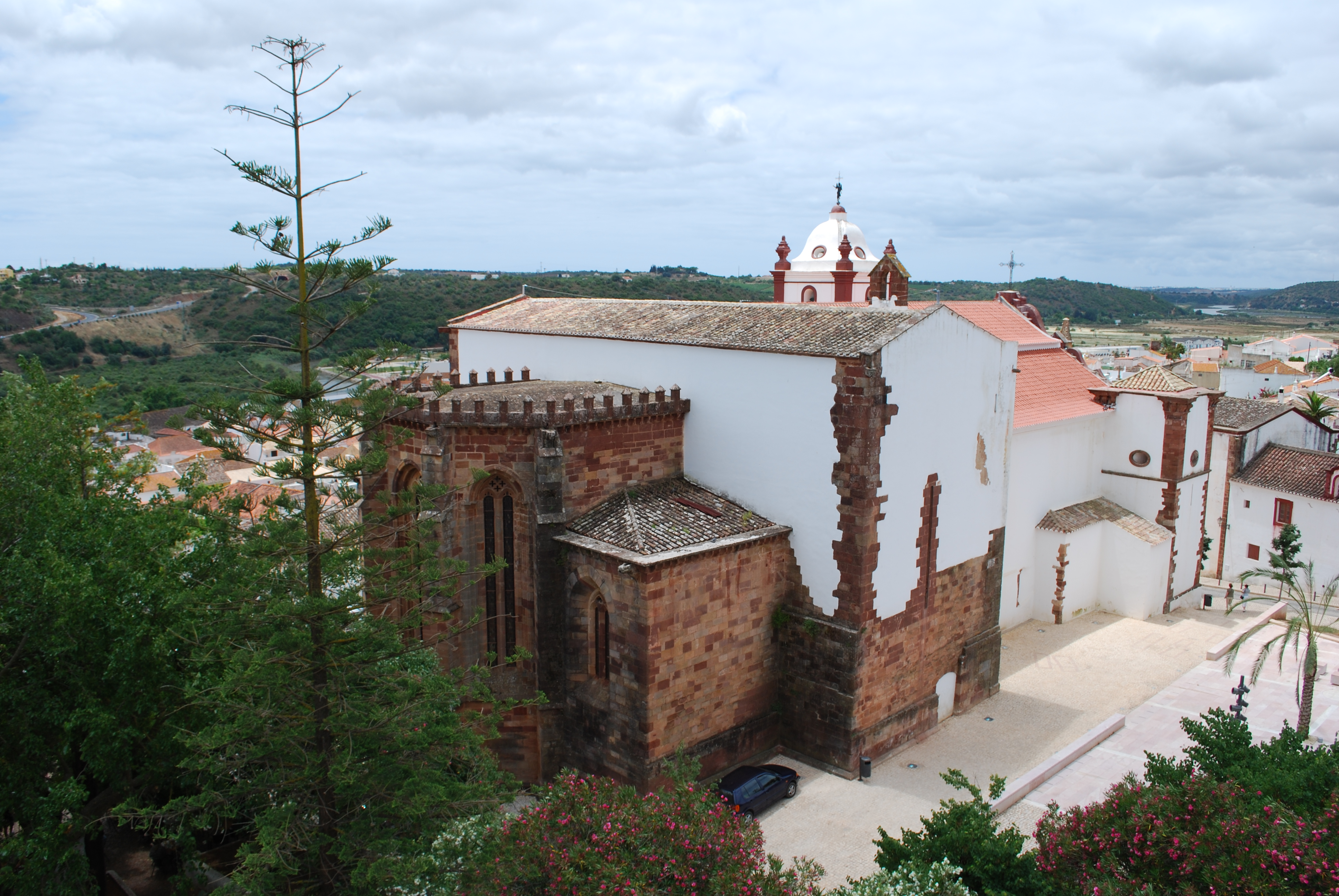 This file was uploaded for Wiki Loves Monuments in Portugal with the unique identifier 69825.